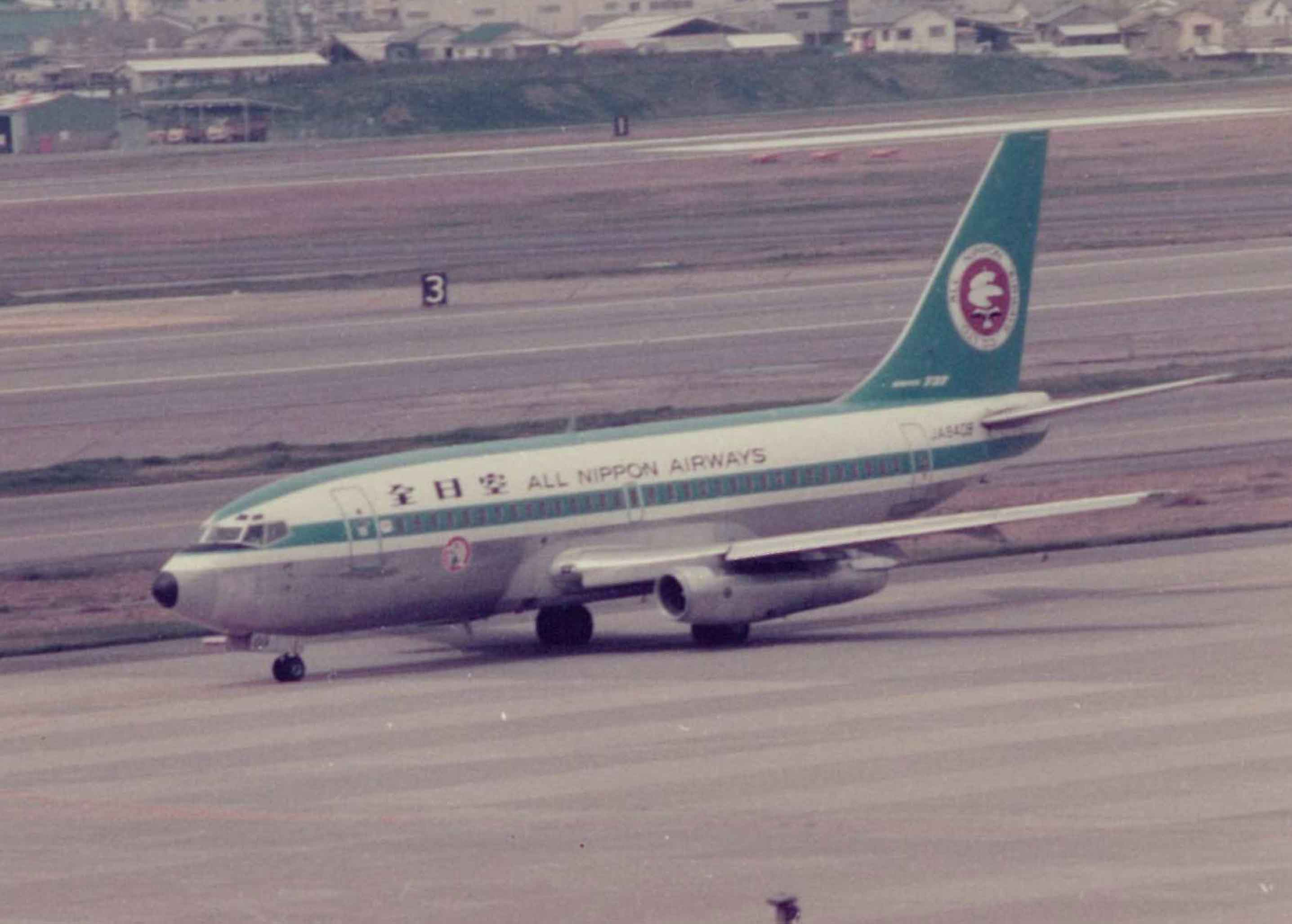 It is Old ANA which it photographed in Itami, Osaka Airport.